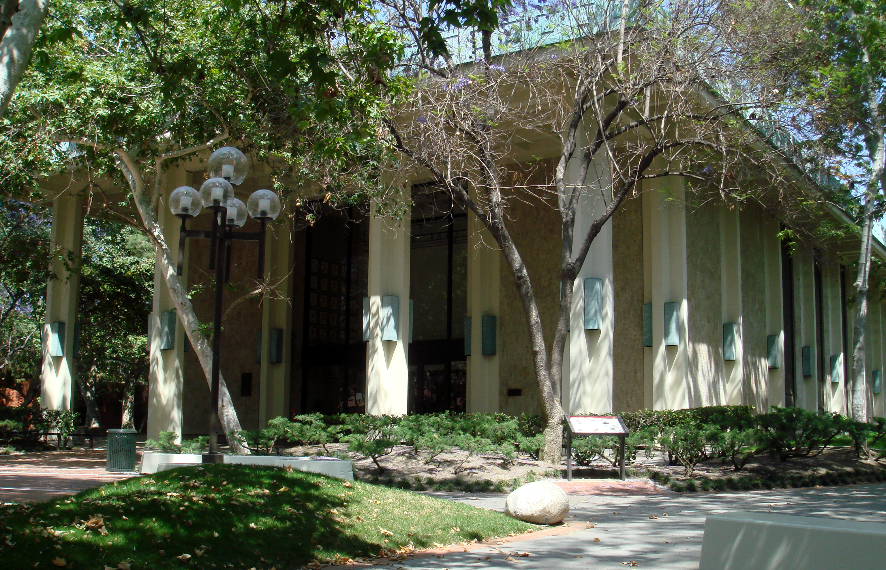 The Eileen Norris Cinema Theatre (aka Norris) at the University of Southern California in Los Angeles, California.